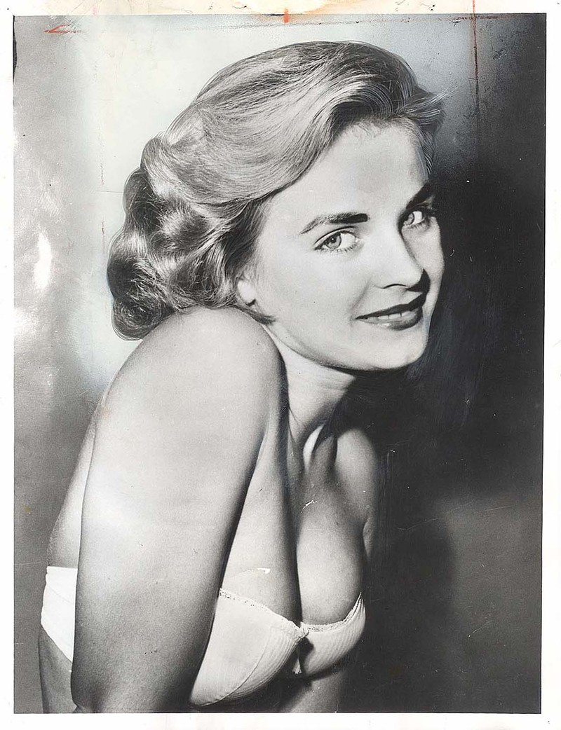 Photography of Judy Ann Dull (died 1957), victim of serial killer Harvey Glatman